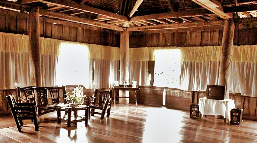 Vega Ancestral House Second Floor Sala